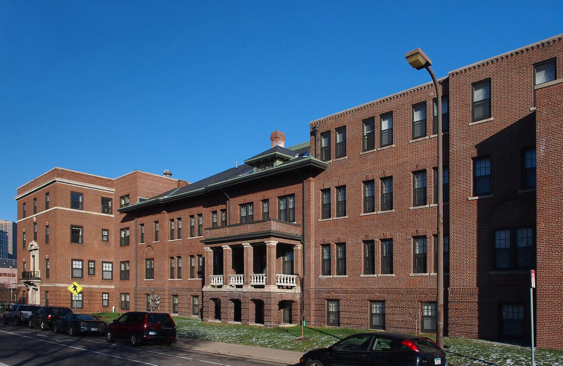 Abbott Hospital, 110 E 18th St, Minneapolis, Minnesota, USA. Viewed from the southwest.